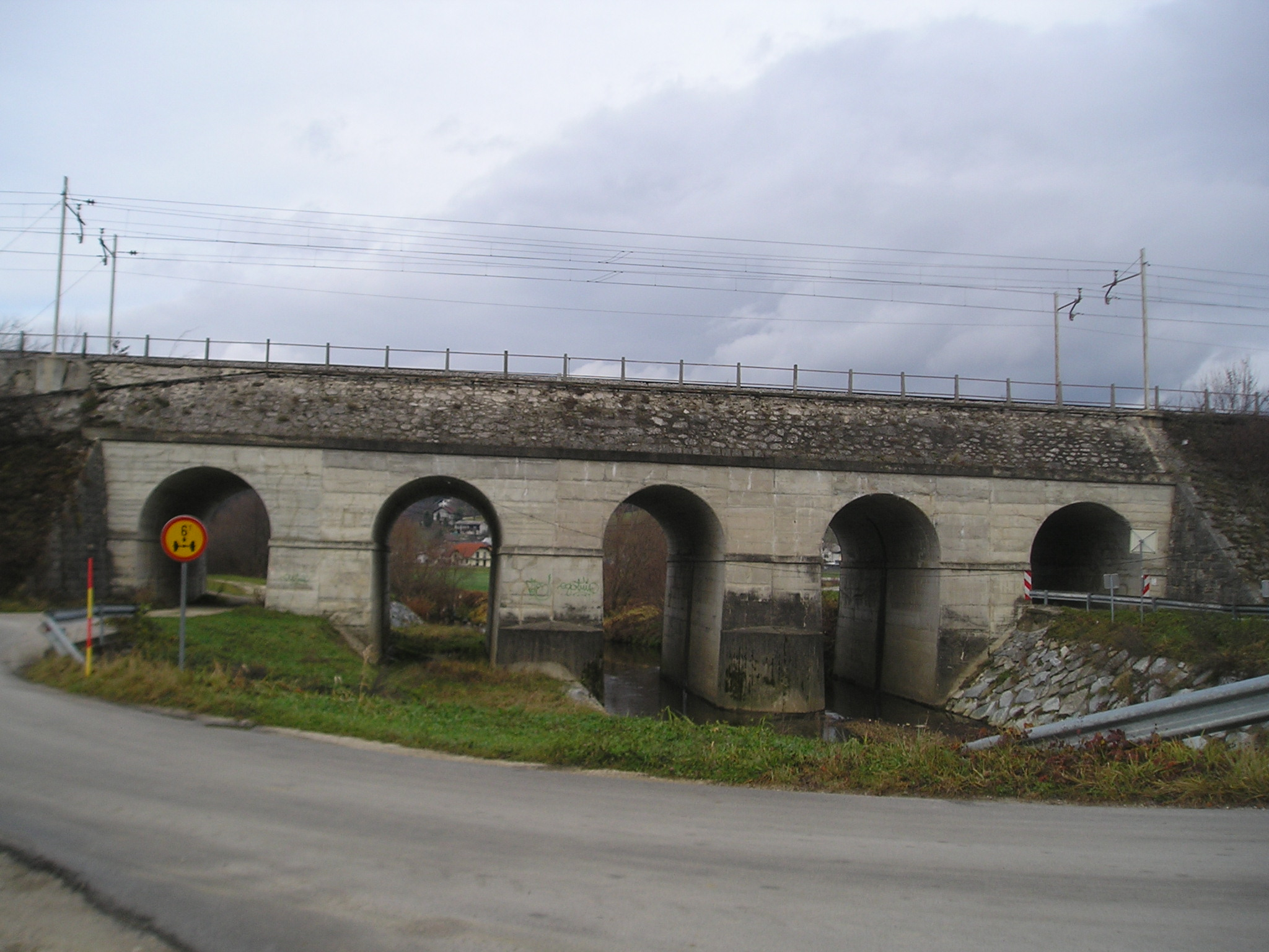 Zbelovo near Poljčane, Slovenia - a view of the Zbelovo viaduct from south